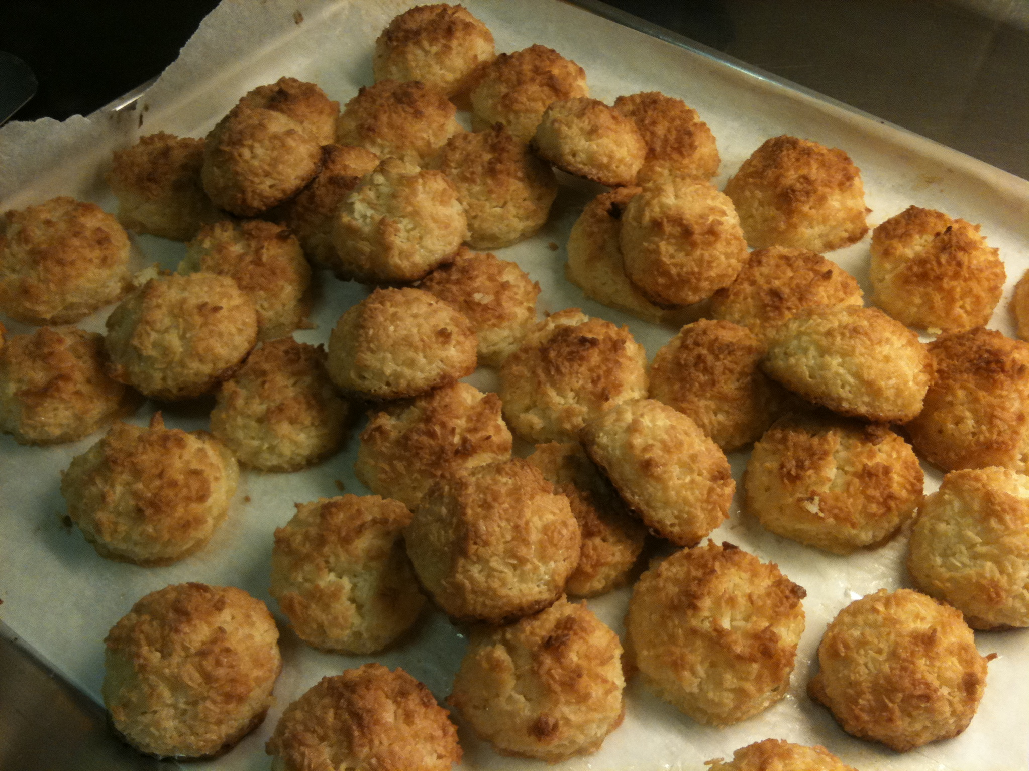 Newly baked coconut cookies.